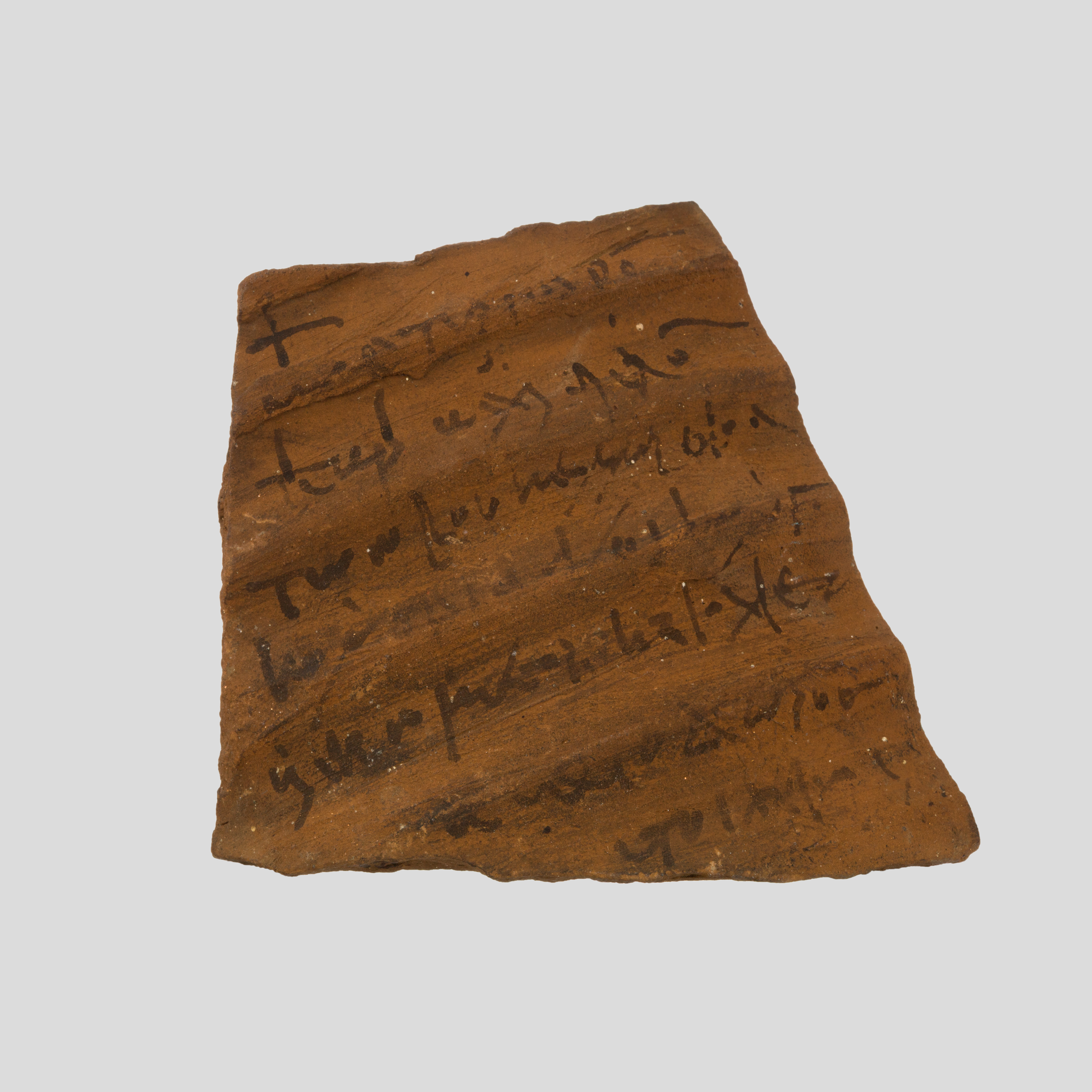 Greek ostrakon – instructions to issue wine.